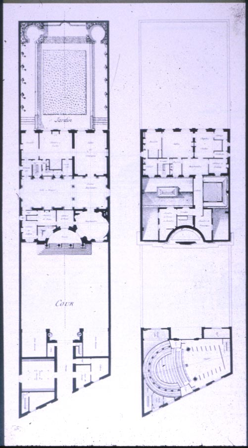 Hôtel de Mlle Guimard, Paris - Left: the plan of the ground floor; right: the plan of the main floor (premier étage), including the theatre over the entrance